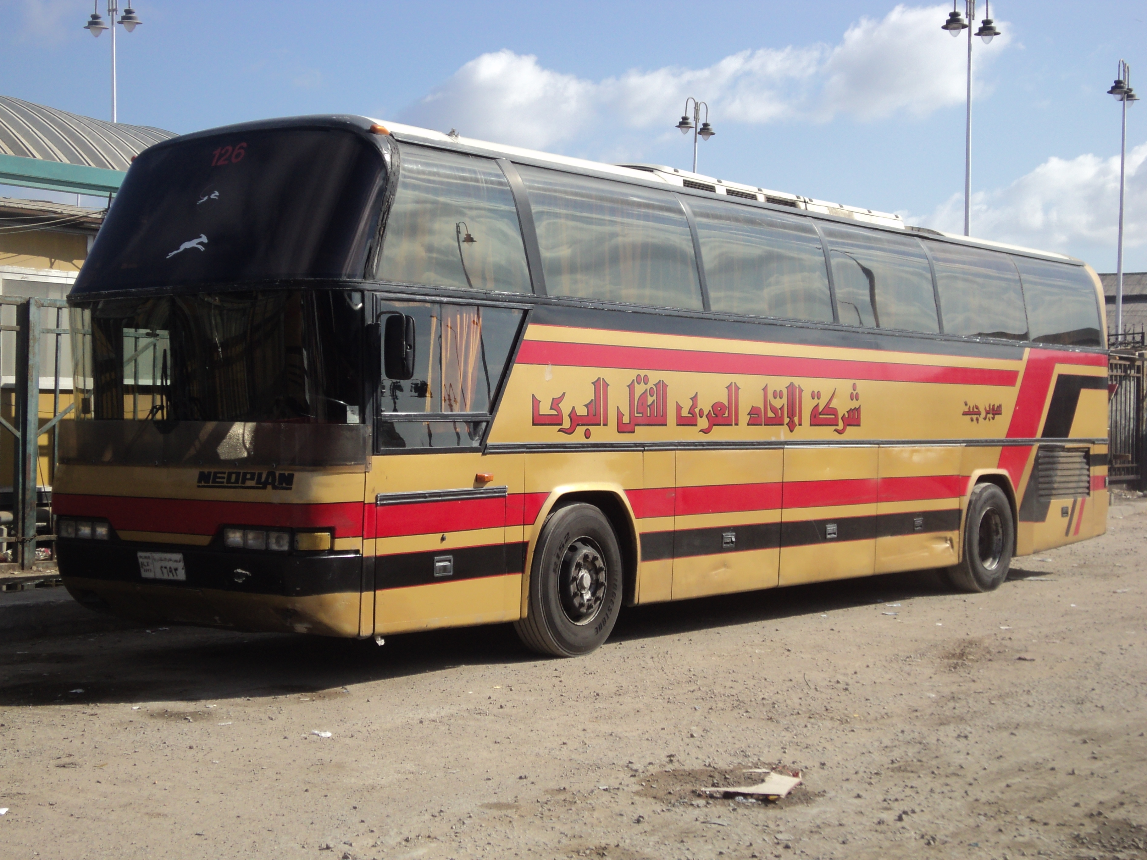 An Arab Union bus in Alexandria's Bus station (El Maw'af El Gedid) at Moharem Bey.